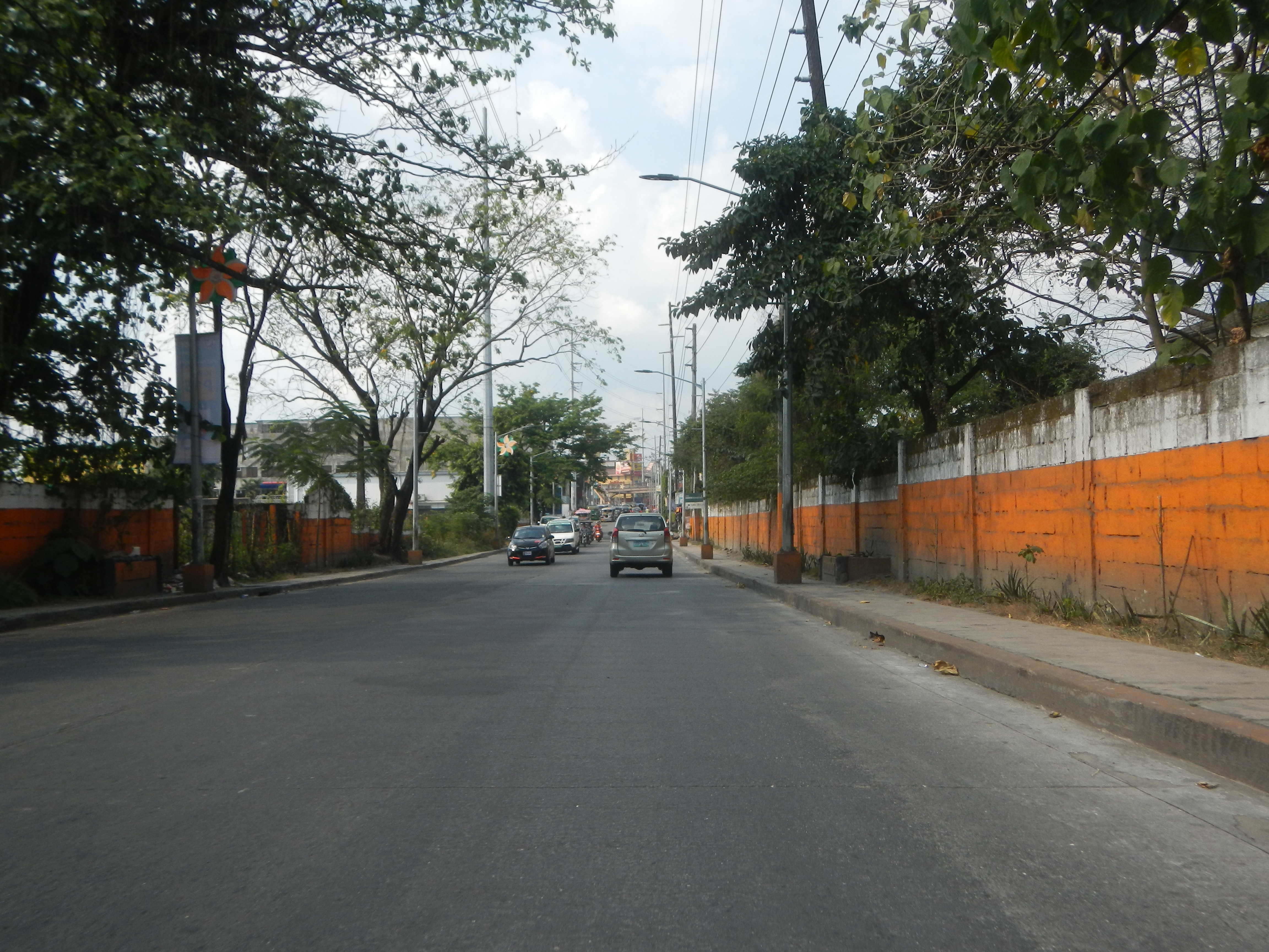 Zabarte Road 14°44'57"N 121°2'42"E Mary, Mother of the Church Parish Church (Cielito Homes, Zabarte Road, Camarin, Caloocan City) Roman Catholic Diocese of Novaliches in Barangays of Caloocan, Barangays 174, 175 and 178 , Camarian and Barangay 177, (Cielito Camarin, Area D, Cielito Homes, Capitol Parkland, Franville IV), Zone 15, Caloocan City along Zapote Road, (Caloocan City North), Almar-Old Zabarte Road, Camarin Road, Susano Road) Barangay 174 14°45'42"N 121°3'13"E Barangay 177 14°44'58"N 121°3'2"E Barangay 178 14°45'6"N 121°3'56"E (Note: Judge Florentino Floro, the owner, to repeat, Donor Florentino Floro of all these photos hereby donate gratuitously, freely and unconditionally all these photos to and for Wikimedia Commons, exclusively, for public use of the public domain, and again without any condition whatsoever).